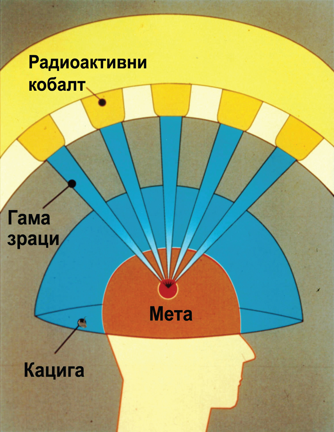 NRC Graphic of the Leksell Gamma Knife. [in Serbian]